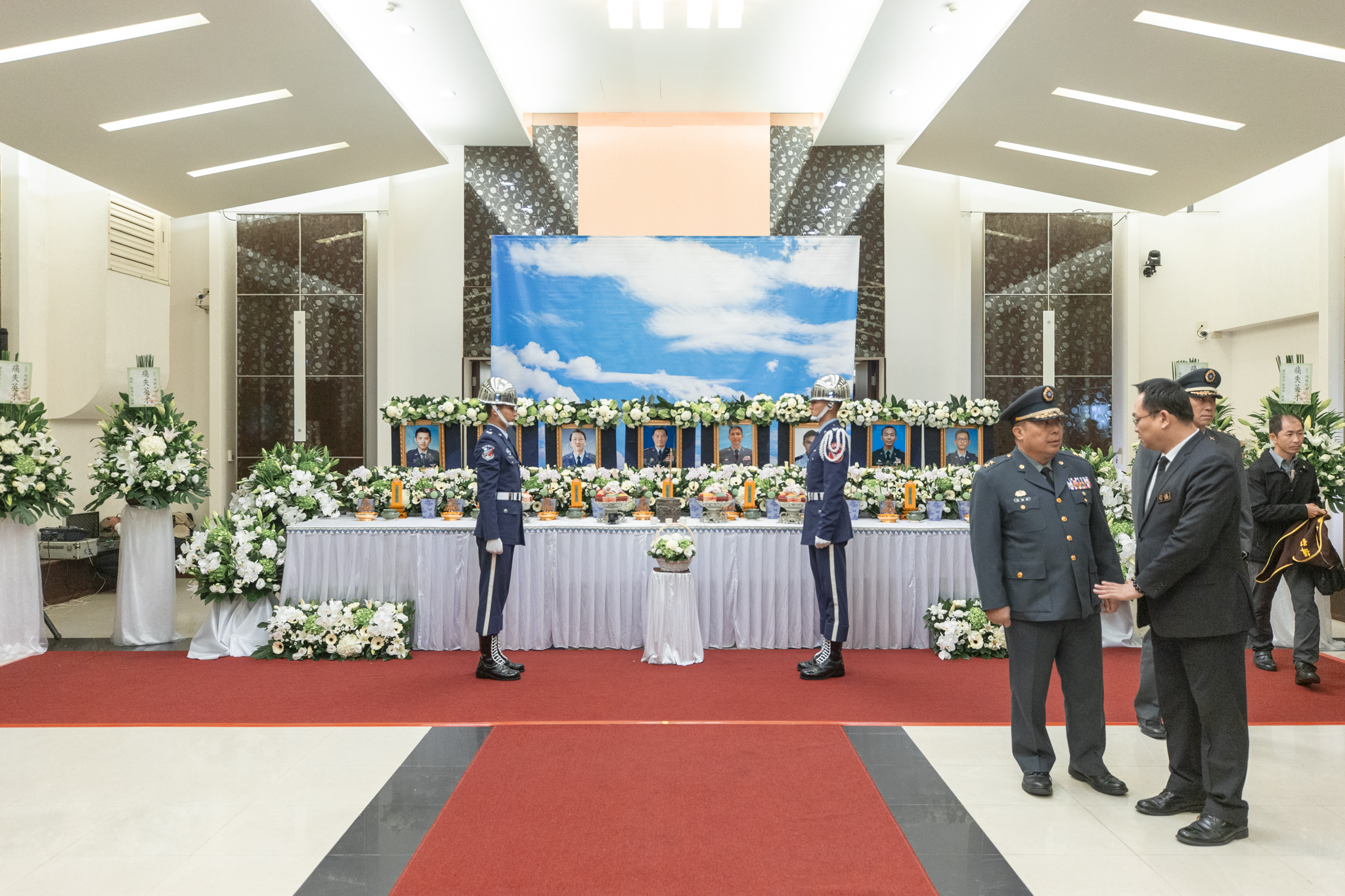 Official Photo by Mori / Office of the President